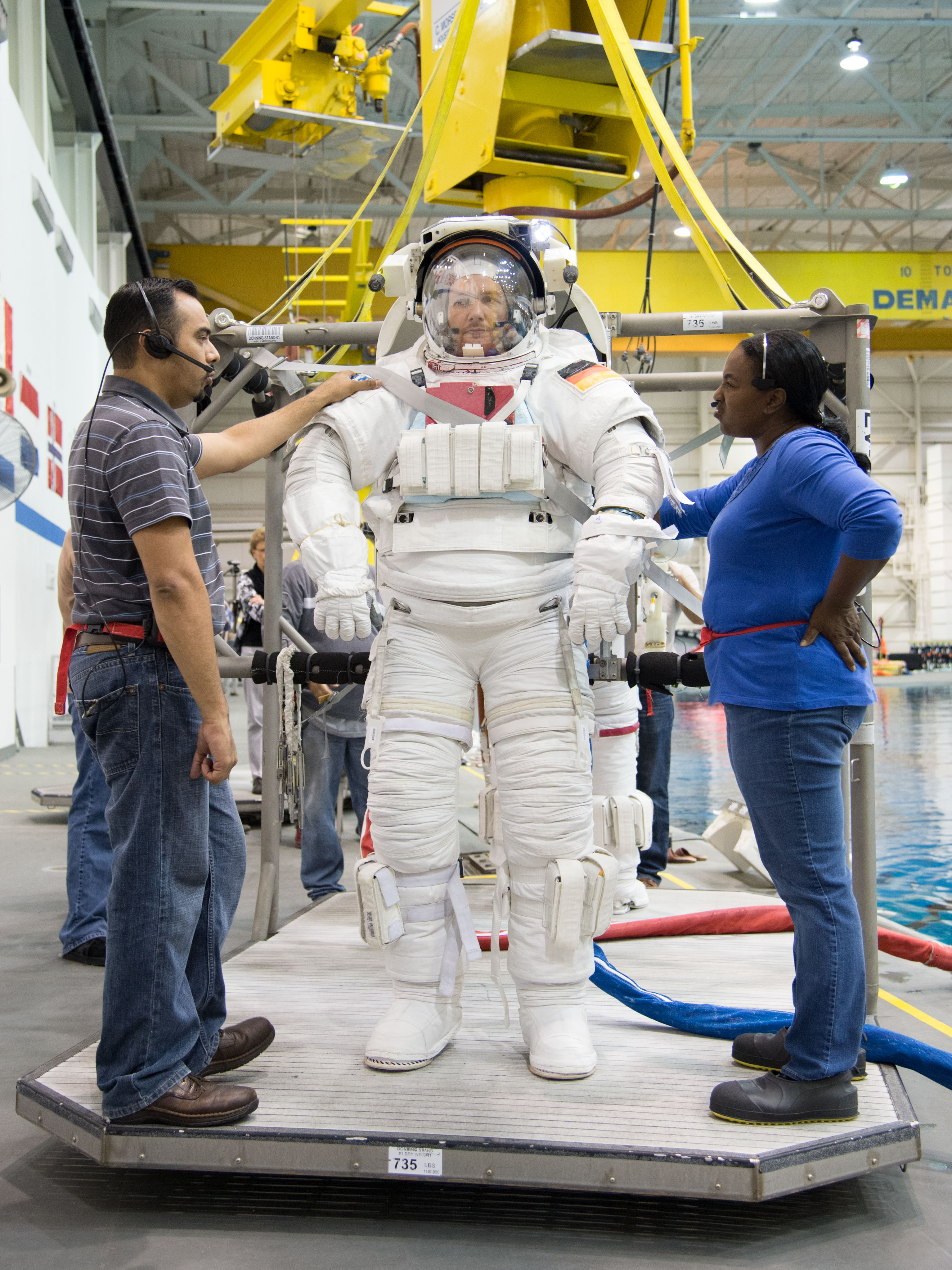 NASA ESA astronaut Reid Wiseman Alexander Gerst, Expedition 40/41 flight engineer, attired in a training version of his Extravehicular Mobility Unit (EMU) spacesuit, is pictured with crew instructors during final preparations for a spacewalk training session in the waters of the Neutral Buoyancy Laboratory (NBL) near NASA's Johnson Space Center.